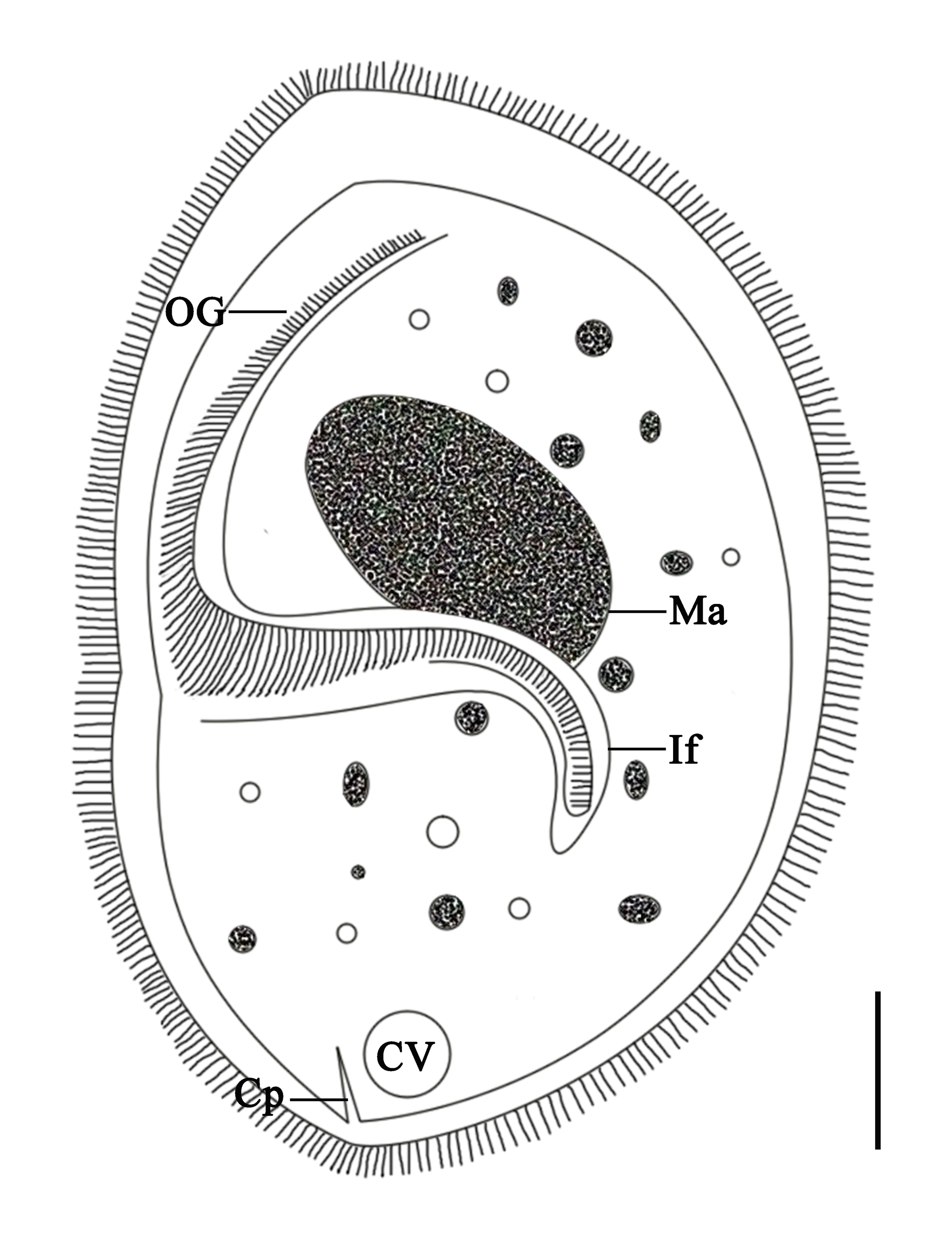 Figure 3 of paper Schematic drawing of Sicuophora multigranularis, showing the general form and structures of the left side: the oral groove (OG), infundibulum (If), macronucleus (Ma), contractile vacuole (CV) and cytoproct (Cp). Scale bar = 30 μm.